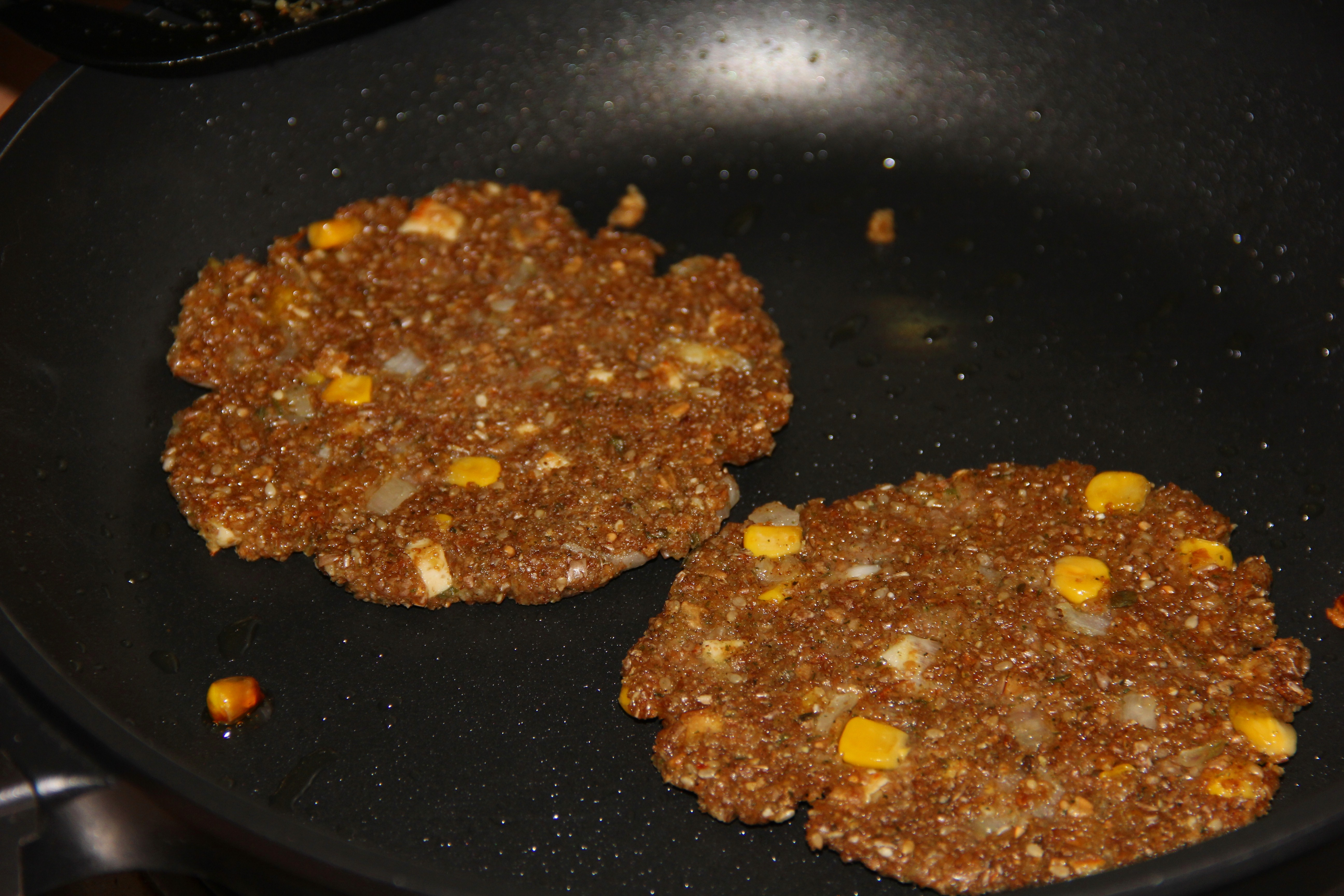 frying spelt cutlets, with additional corn, onions and smoked tofu